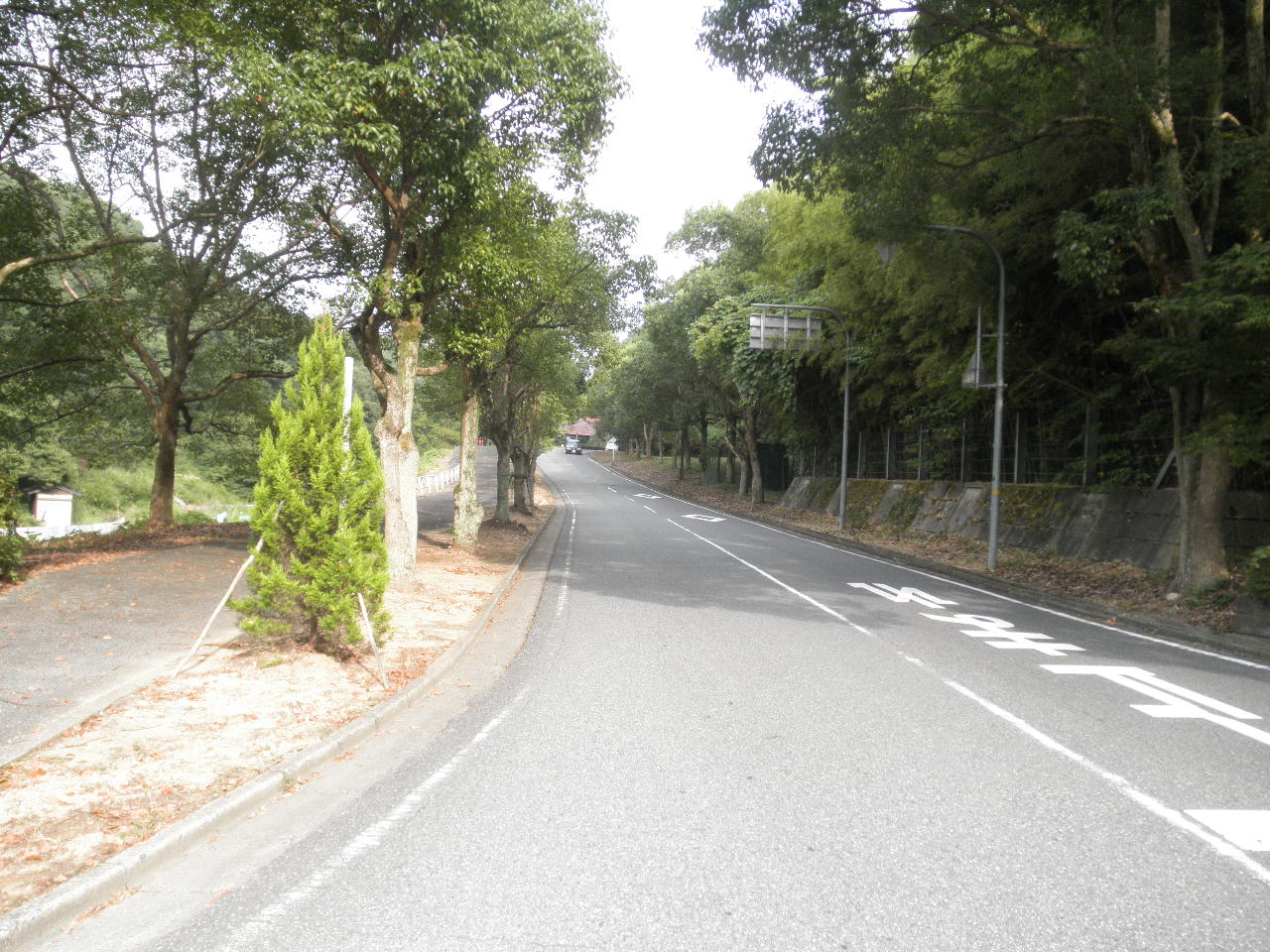 Green pia Miki doorway